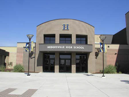 Hedgesville High School is located at 109 Ridge Road in Hedgesville, WV.